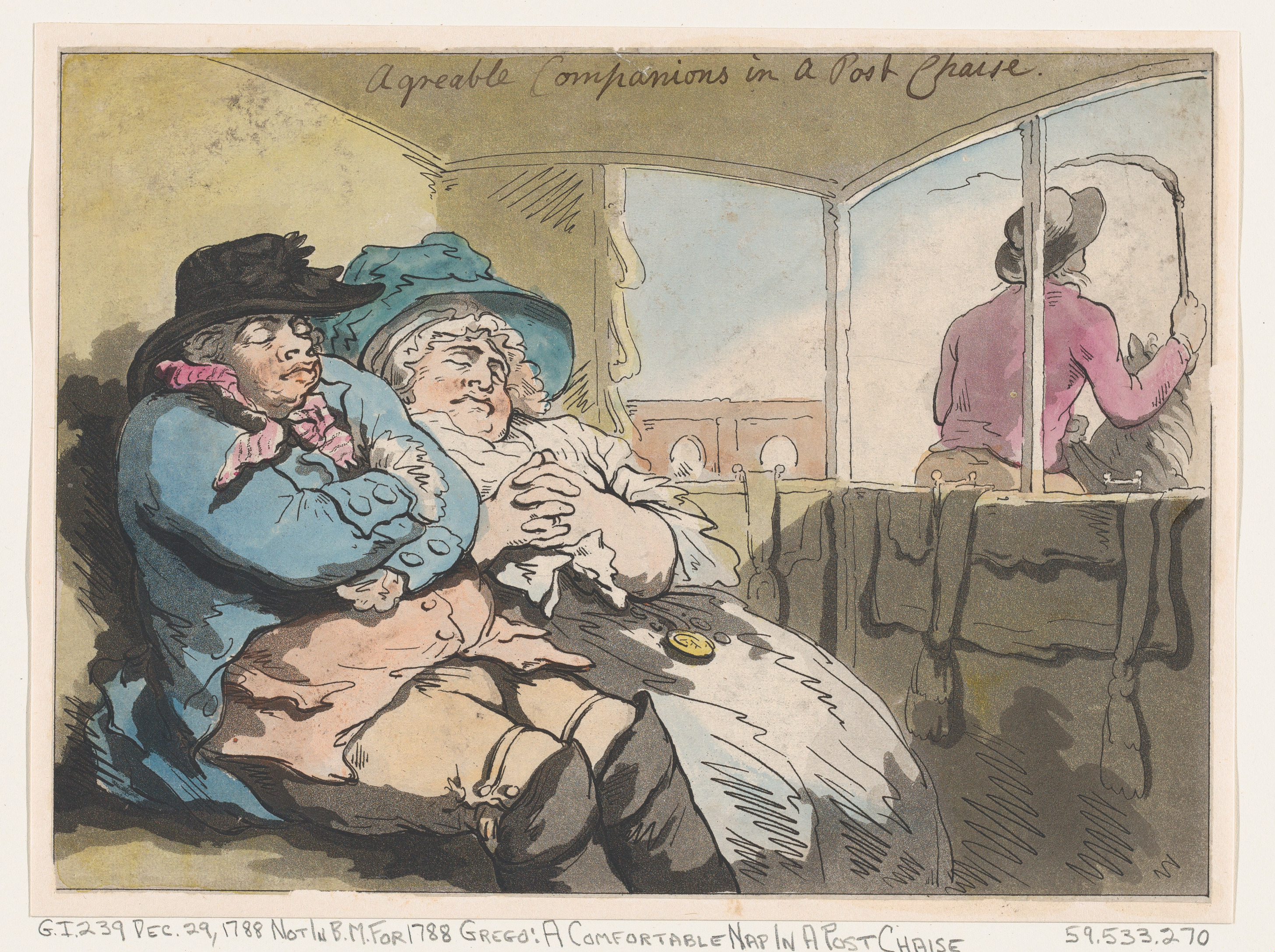 Print; Prints